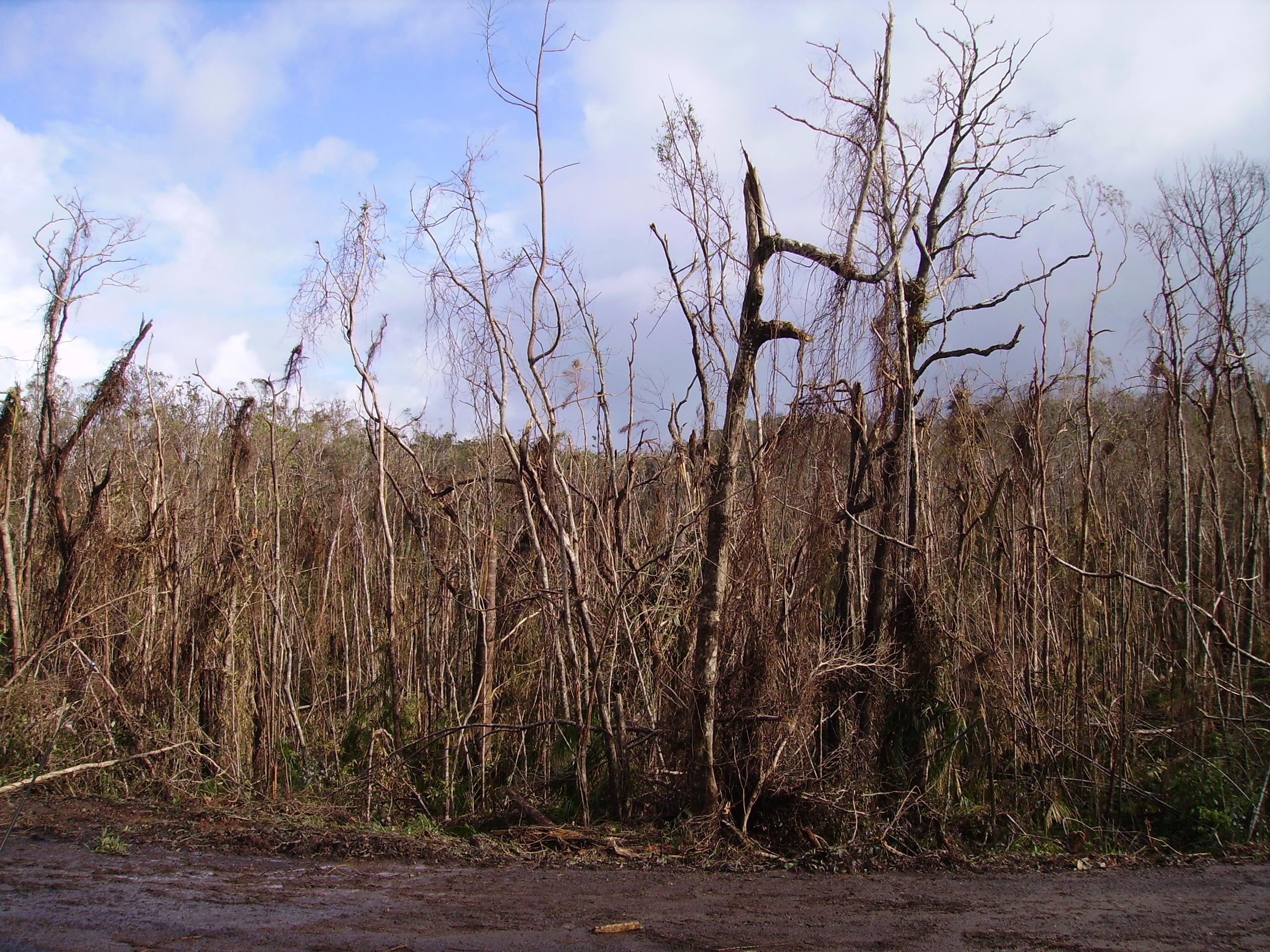 demonstrate cyclone intensity